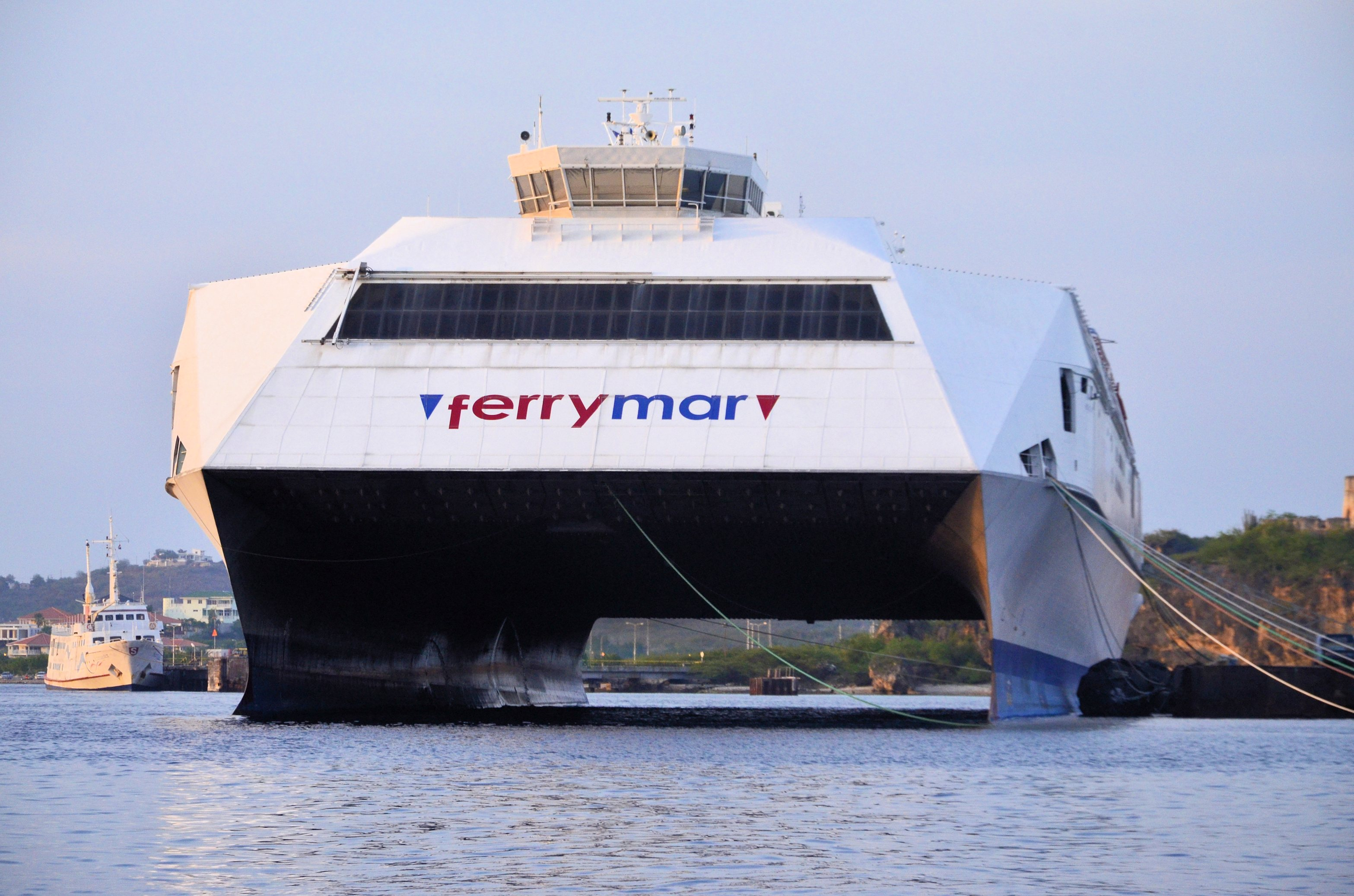 HSS Discovery laid up in Caracas Bay, Curacao